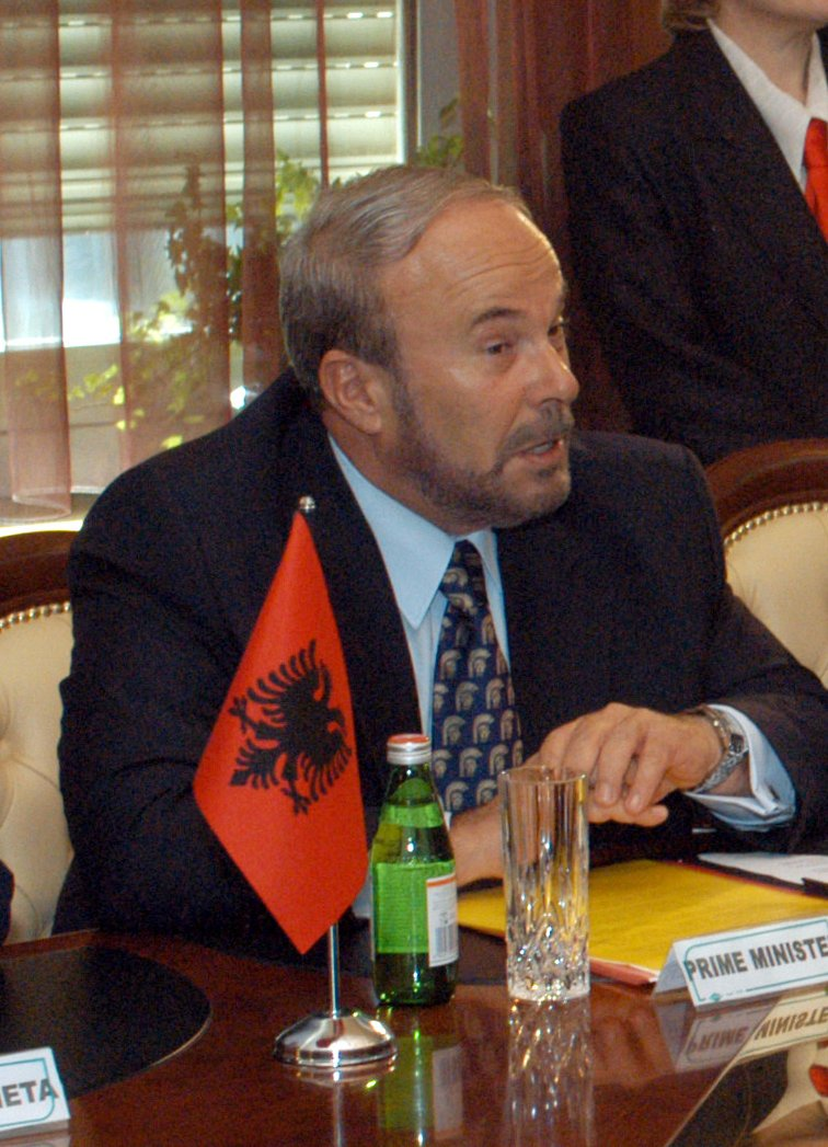 Fatos Nano, then prime minister of Albania, during a visit of US secretary of defense Donald Rumsfeld to Tirana, June 10, 2003.